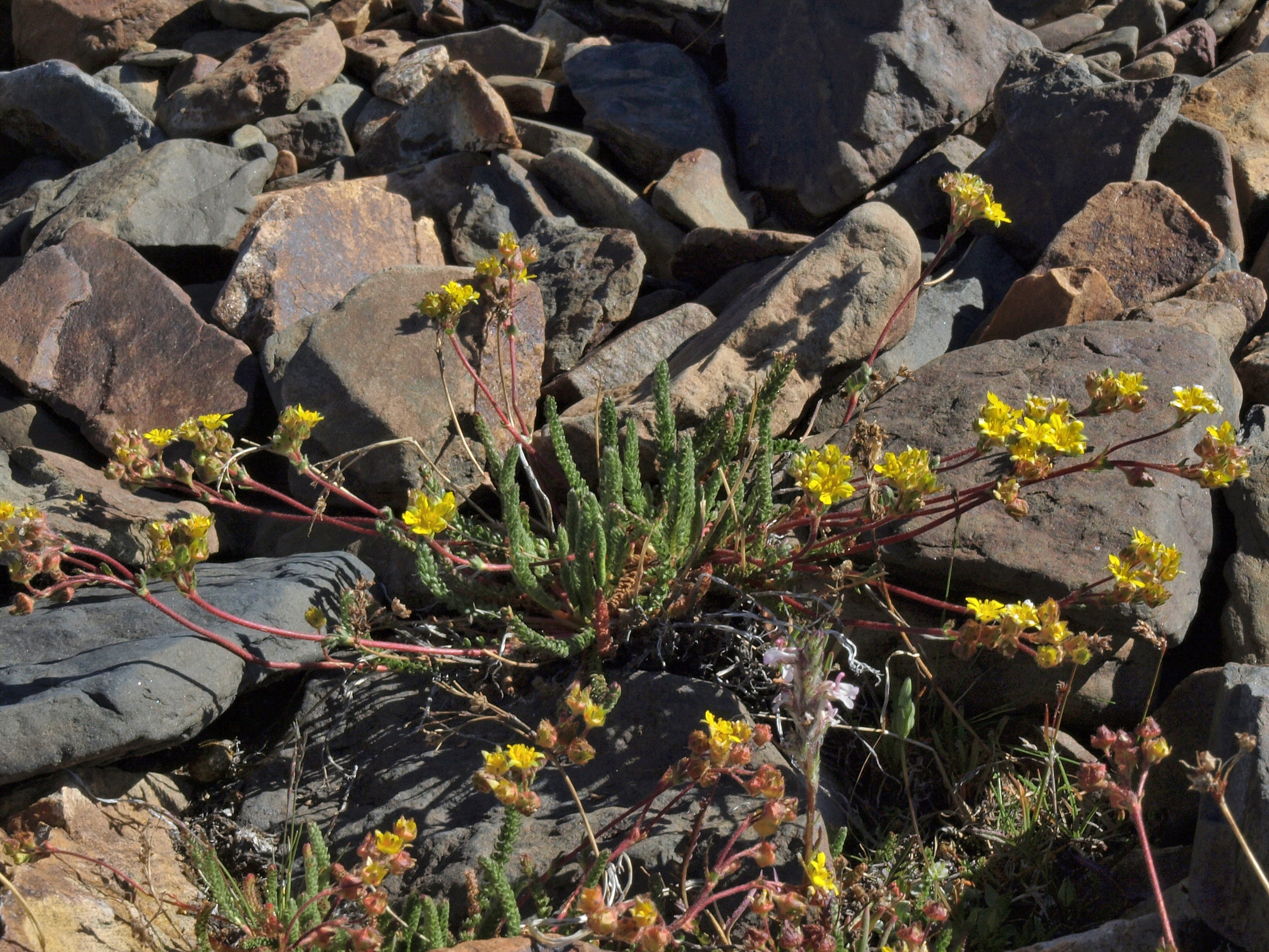 White Mountains mousetails, Ivesia lycopodioides var. scandularis, Inyo National Forest, elevation 3665 m (12030 ft). Though revealed to be locally abundant in wet years, var. scandularis is geographically limited to the alpine zone of the White Mountains and adjacent Sierra Nevada. Substrate is mixed sediments, mainly sandstone of the Campito Formation (lower Cambrian). Also visible are little elephant heads (Pedicularis attollens), Lapland gentian (Comastoma tenellum), and spike woodrush (Luzula spicata).